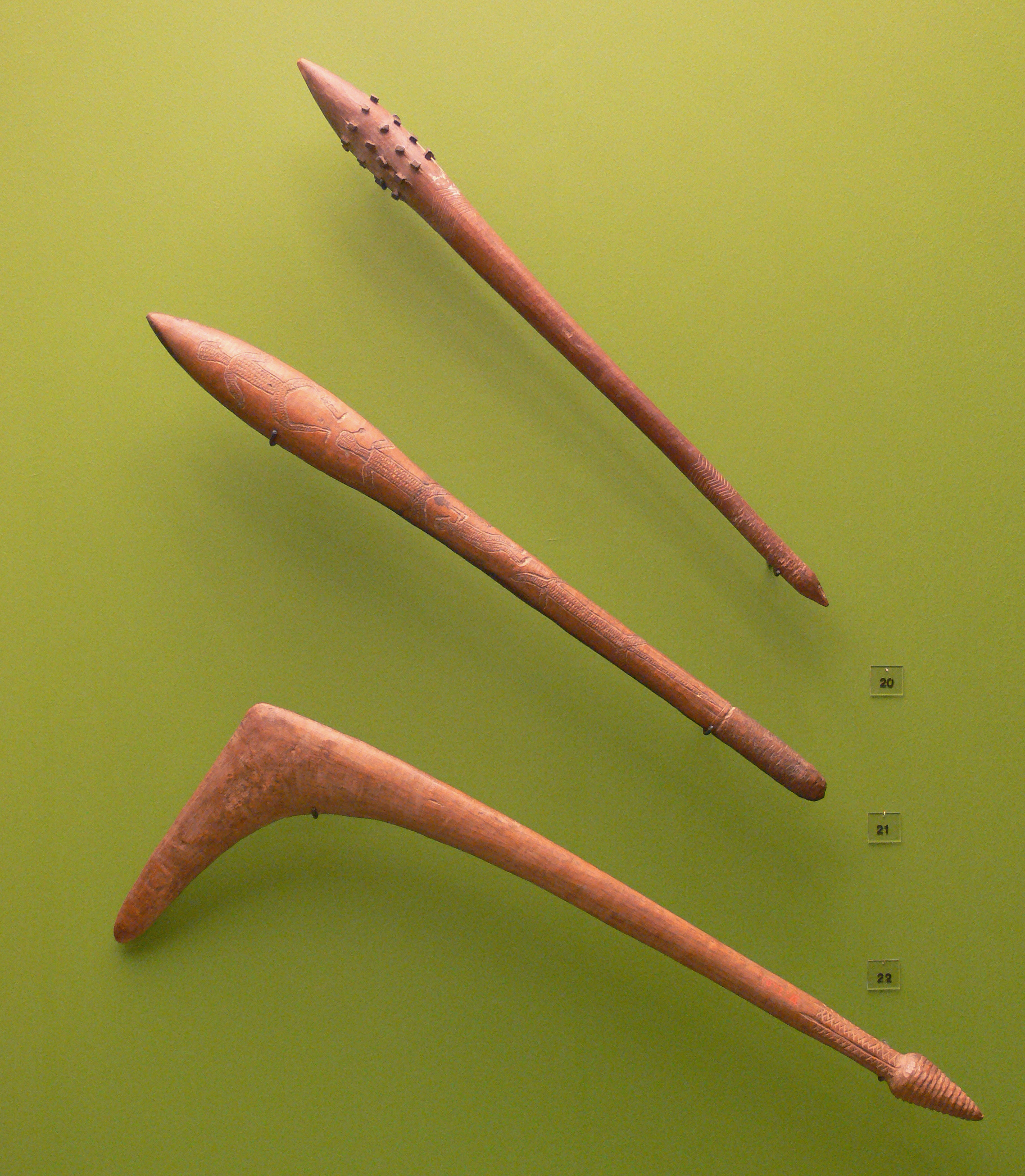 Wooden clubs, Arrernte people, Australia; South Seas Department, Ethnological Museum, Berlin, Germany (Wettengel Collection, 1906).